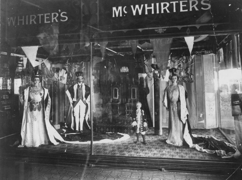 Window display in McWhirters department store in Fortitude Valley Brisbane to celebrate King George V's ascension to the throne in 1910